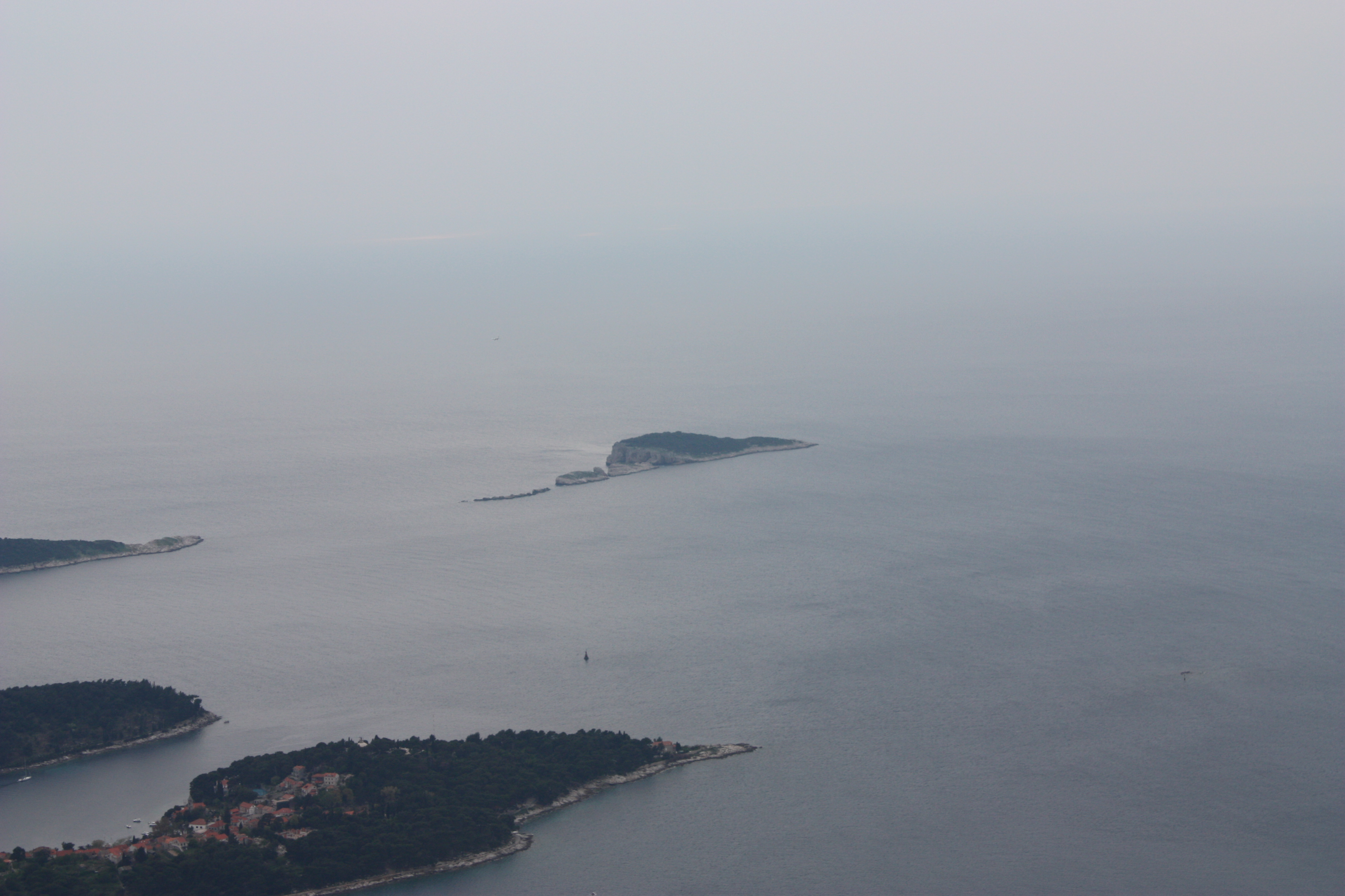 Island Bobara